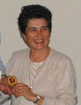 Doña Mélica Muñoz durante su homenaje a los Botánicos Destacados en la Reunión de Botánica de Chile 2008.